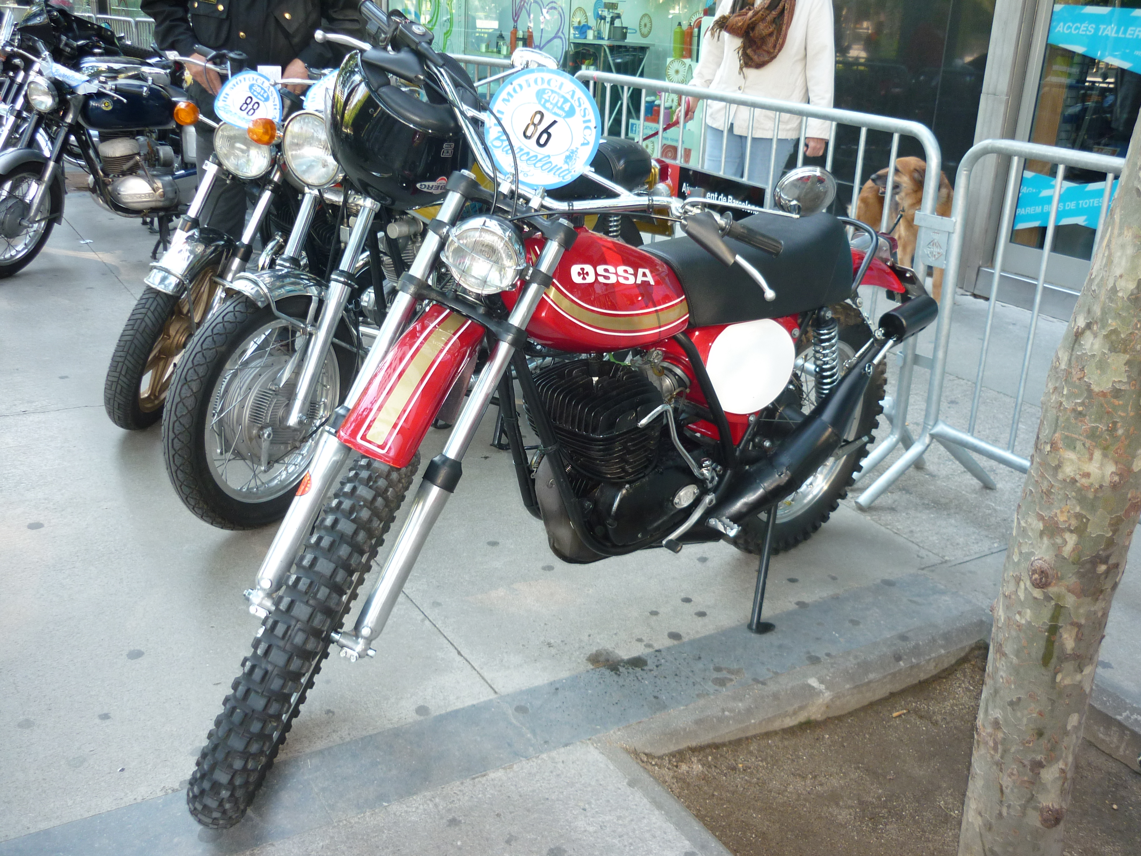 Ossa Desert Phantom 250, 1975